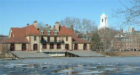 Weld Boathouse with Harvard University buildings visible in the background. Picture taken by Lubos Motl (user: Lumidek) and given GFDL status. Cropped by User:HouseOfScandal for Weld Family and Weld Boathouse articles. Category:Images of Boston, Massachusetts Editing Image:CharlesRiverIce.JPG